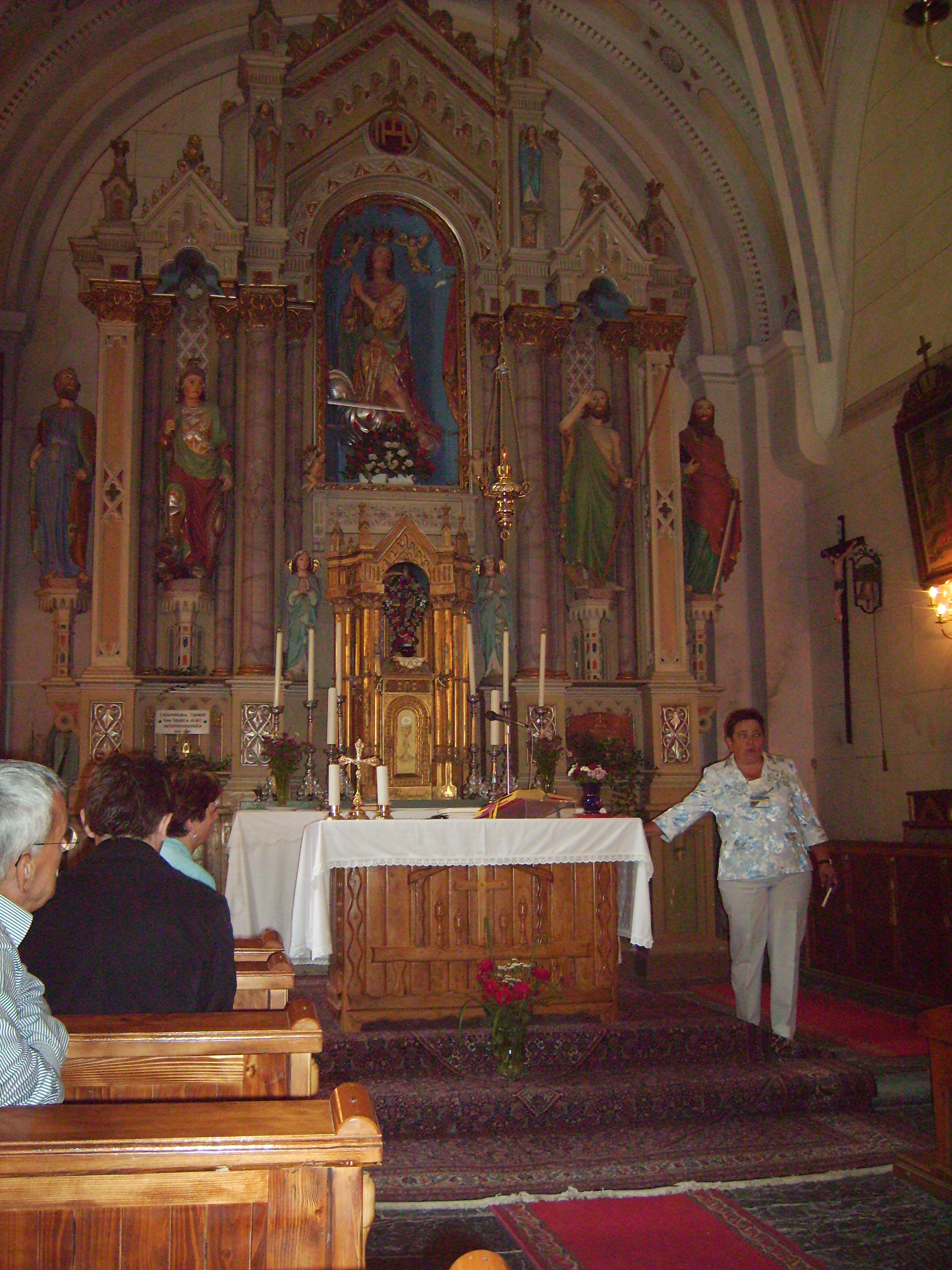 Altar in the carthusian church of Jurklošter (Slovenia)